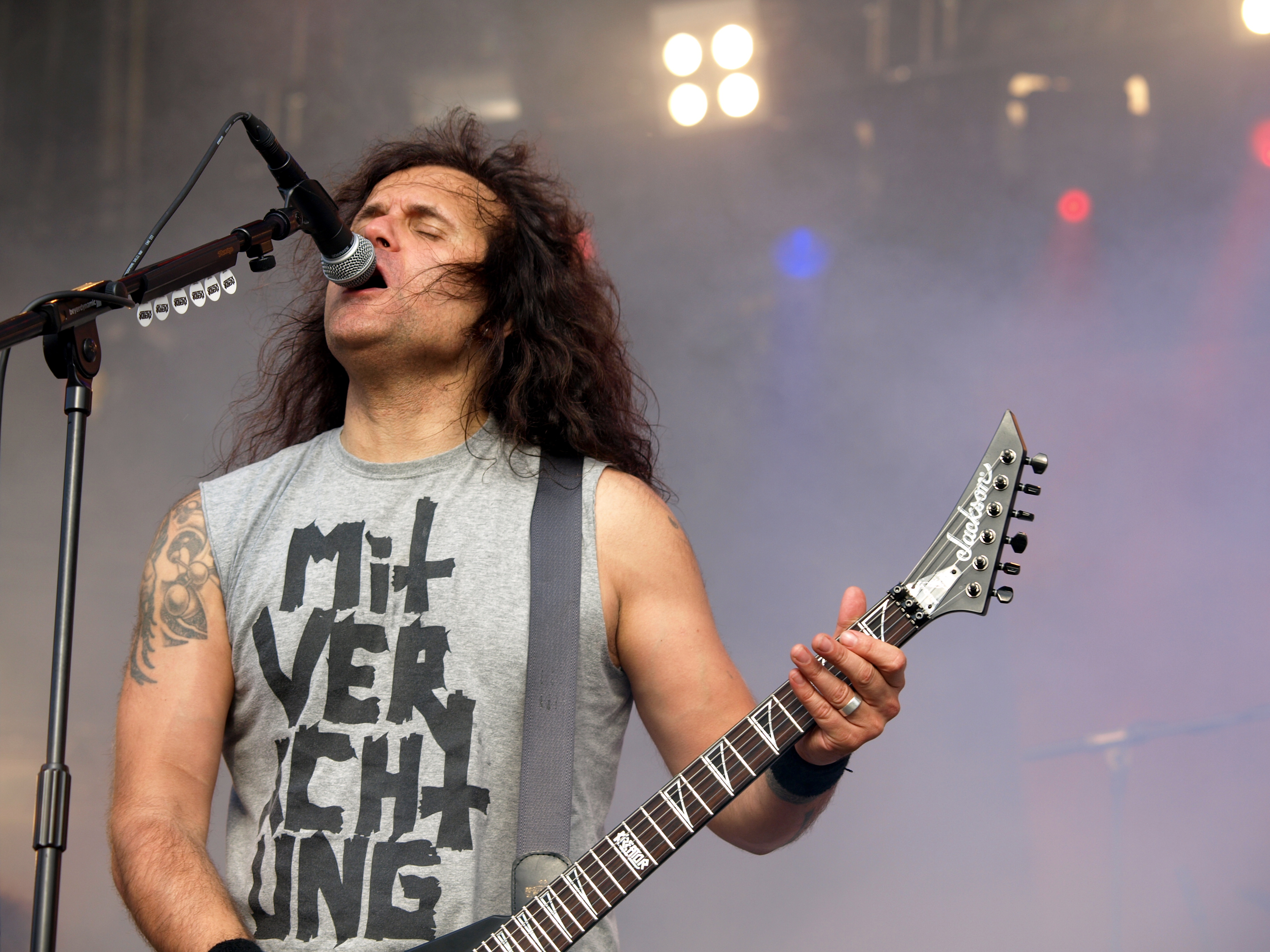 German thrash metal band Kreator live at Tuska Open Air 2013